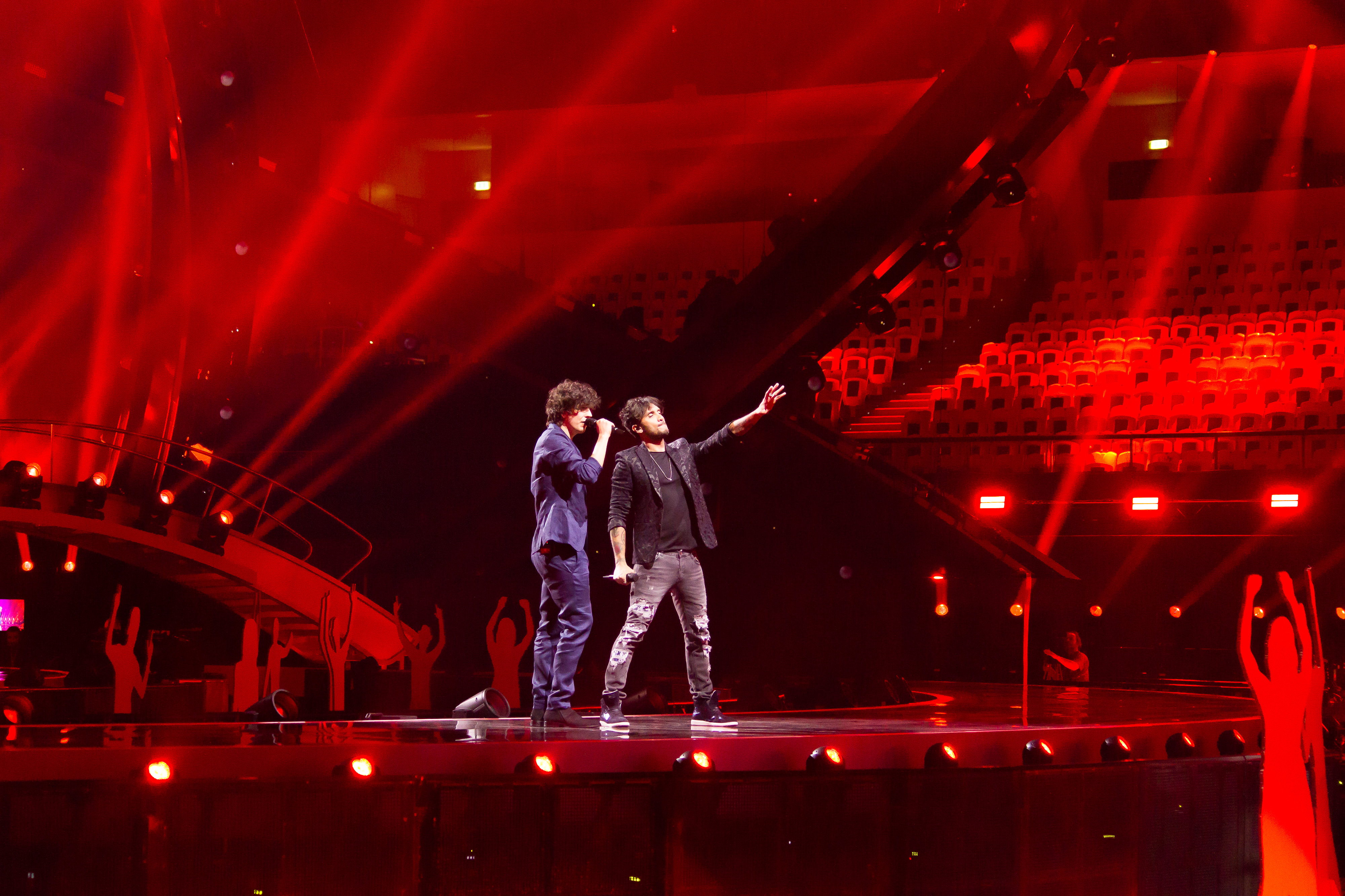 Ermal Meta and Fabrizio Moro representing Italy with the song "Non mi avete fatto niente" during a rehearsal before the second semi final of the Eurovision Song Contest 2018 in Lisbon.